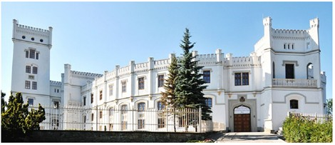 CASTLE NEW SVETLOV